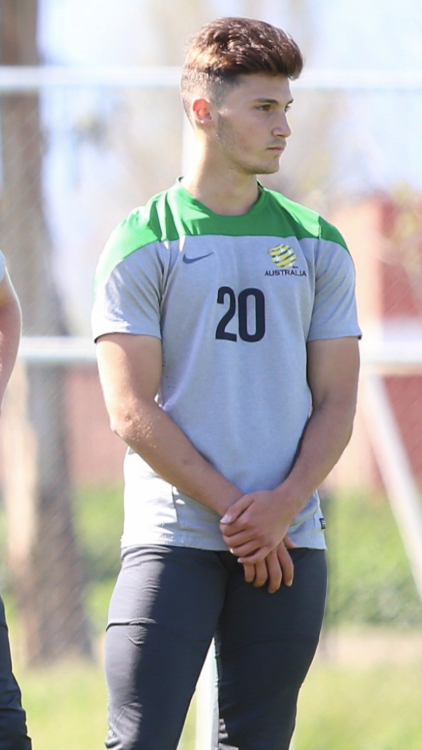 Perry Fotakopoulos in preparation for FIFA World Cup.